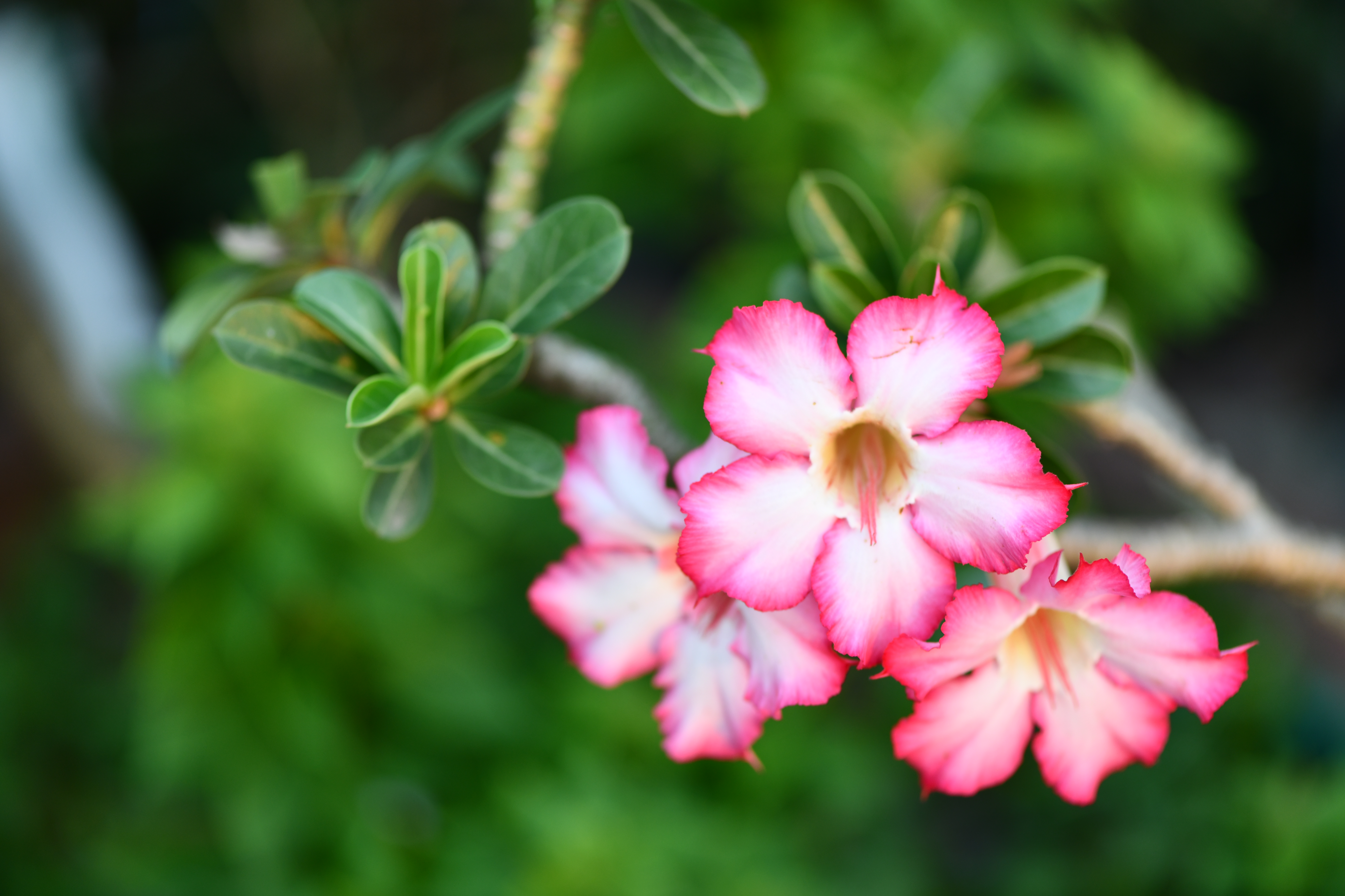 Adenium in Thailand by Trisorn Triboon